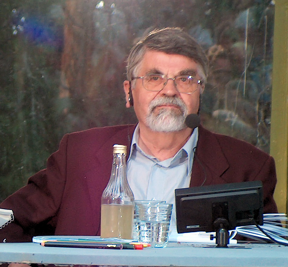 The filming of the tv program The Evening of Nature at Taaborinvuori in Nurmijärvi - Biologist Matti Helminen